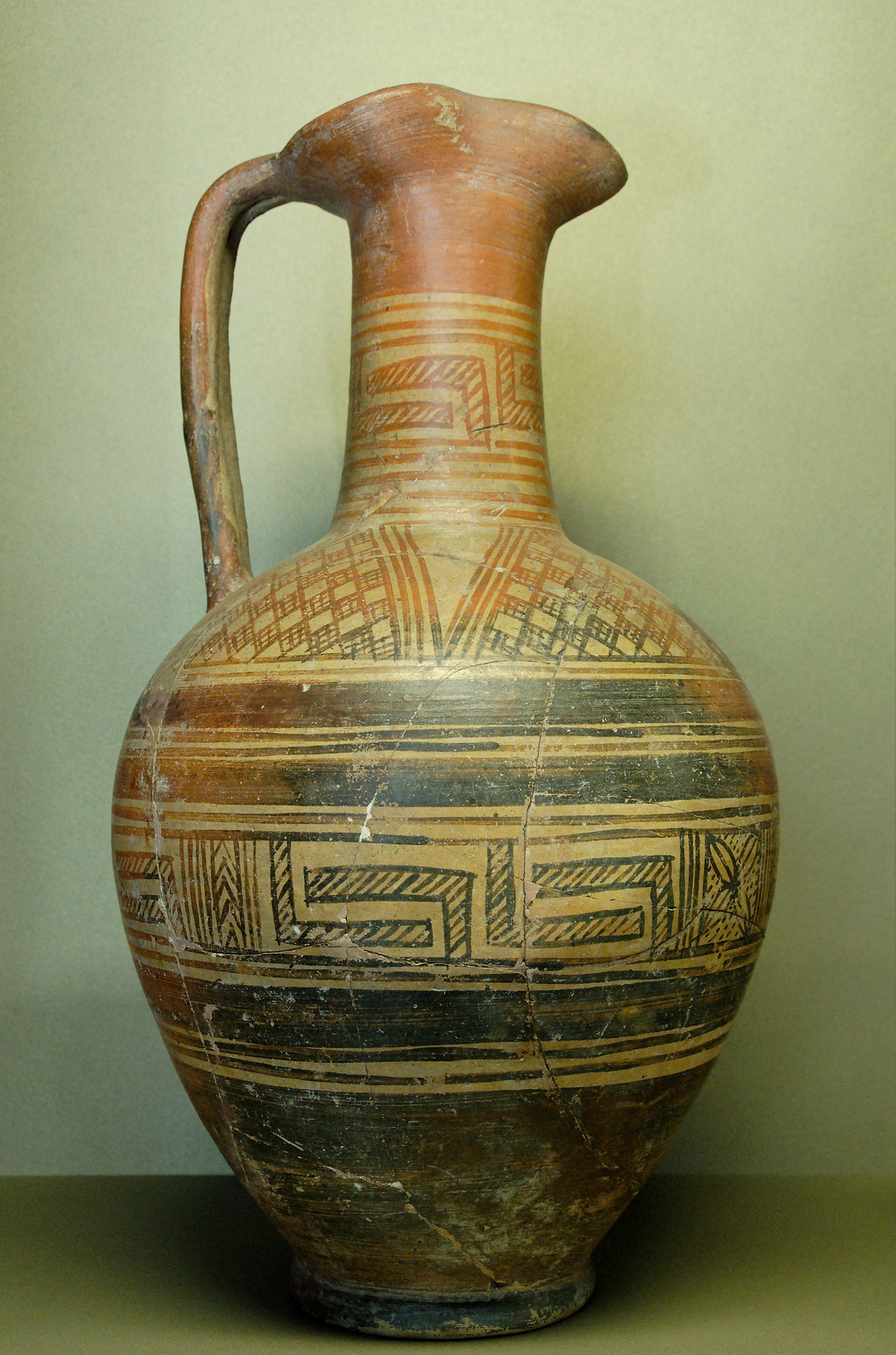 Rhodian Geometric oinochoe, ca. 740–720 BC. From Cyprus.